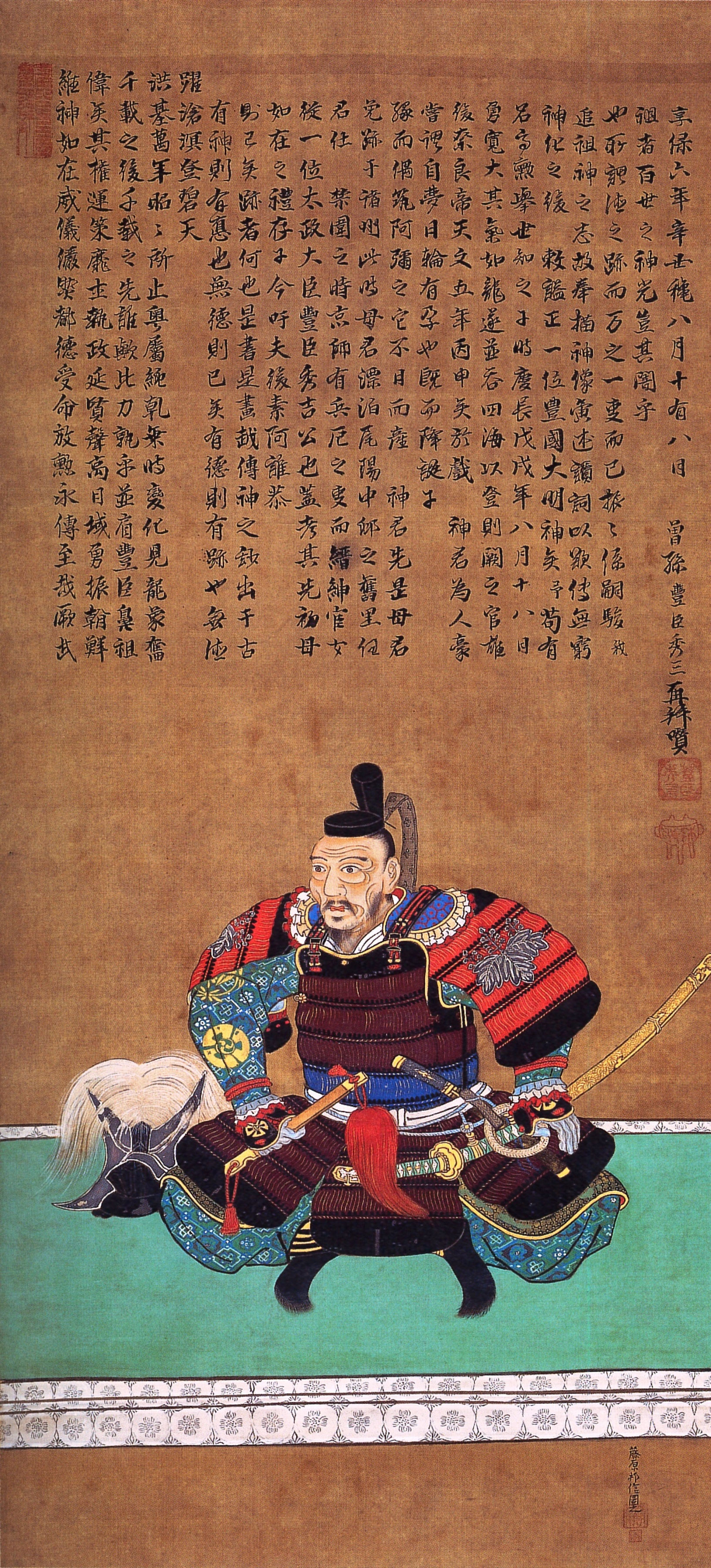 Artwork of Toyotomi Hideyoshi. From the Hideyoshi Kiyomasa Memorial Hall, Nagoya